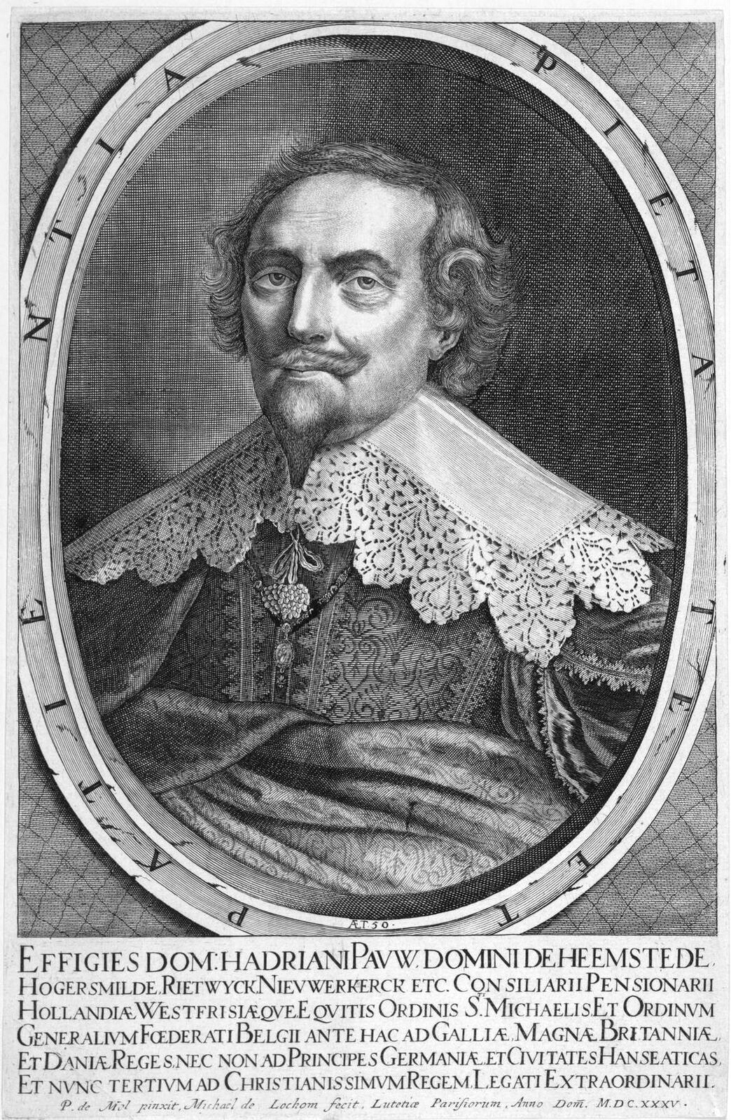 Adriaen Pauw engraving 25.3 x 19.4 cm 1635